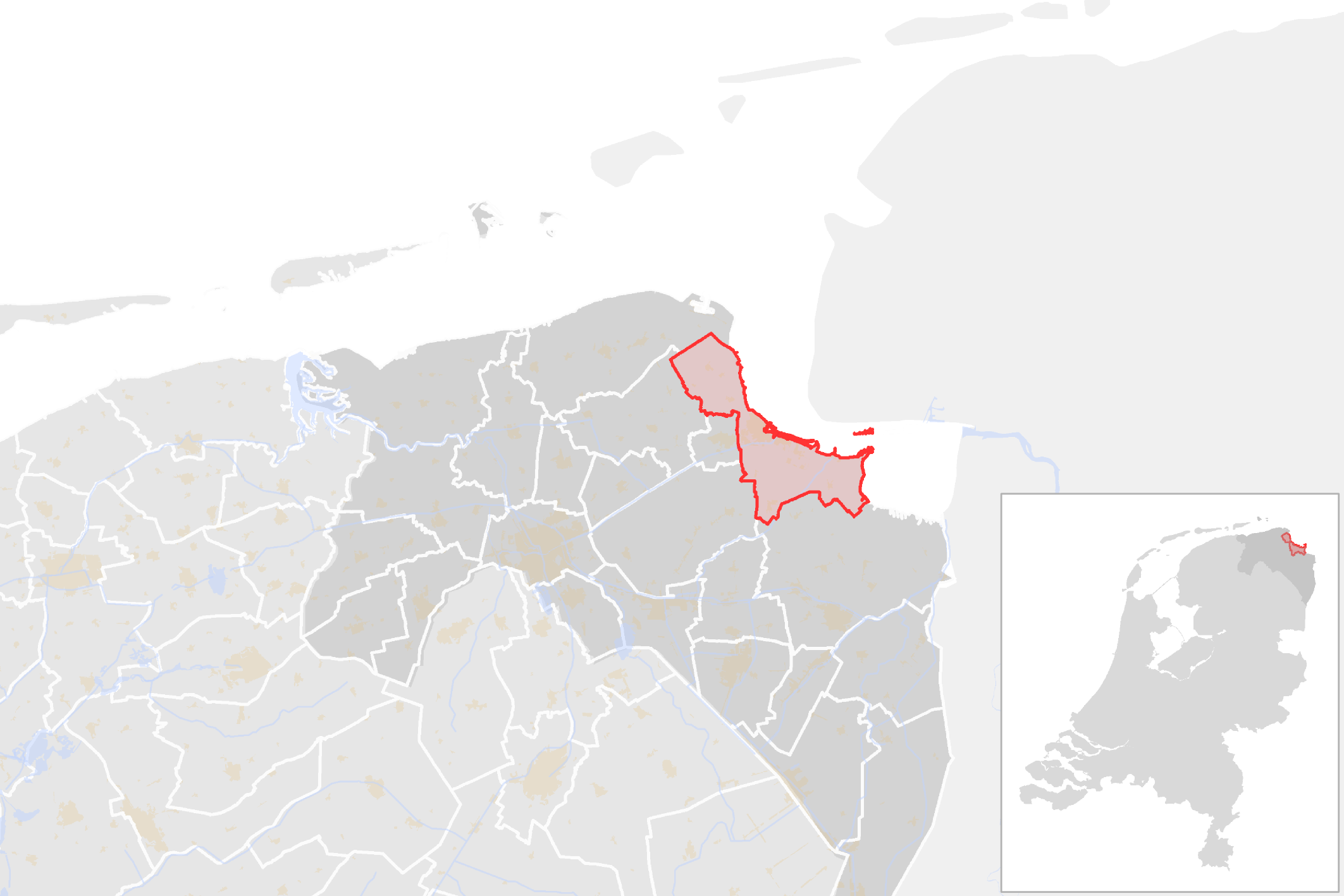 Locator map showing municipality boundary of one of the 390 Dutch municipalities (as of 2016)